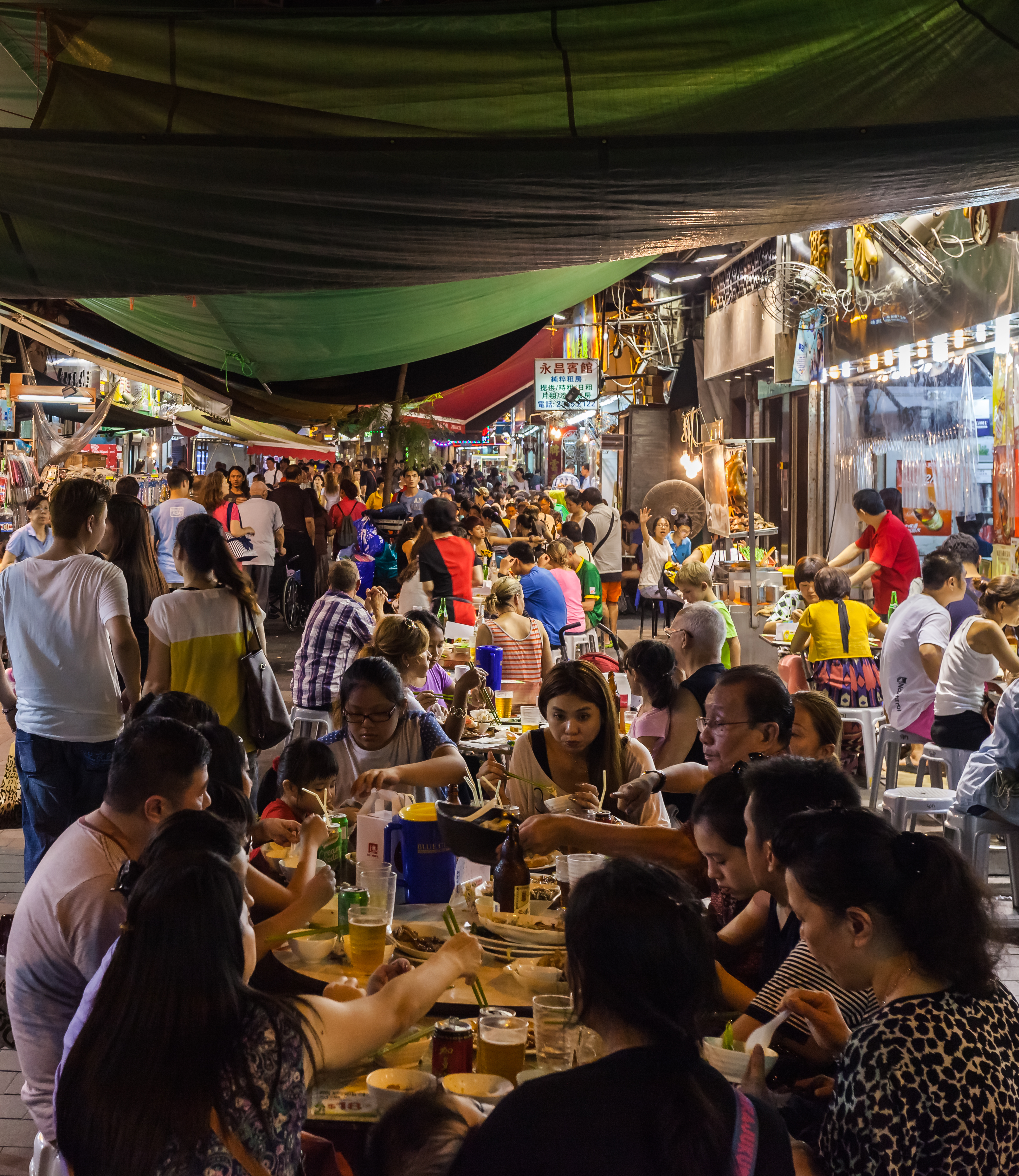 Market in Temple St., Hong Kong